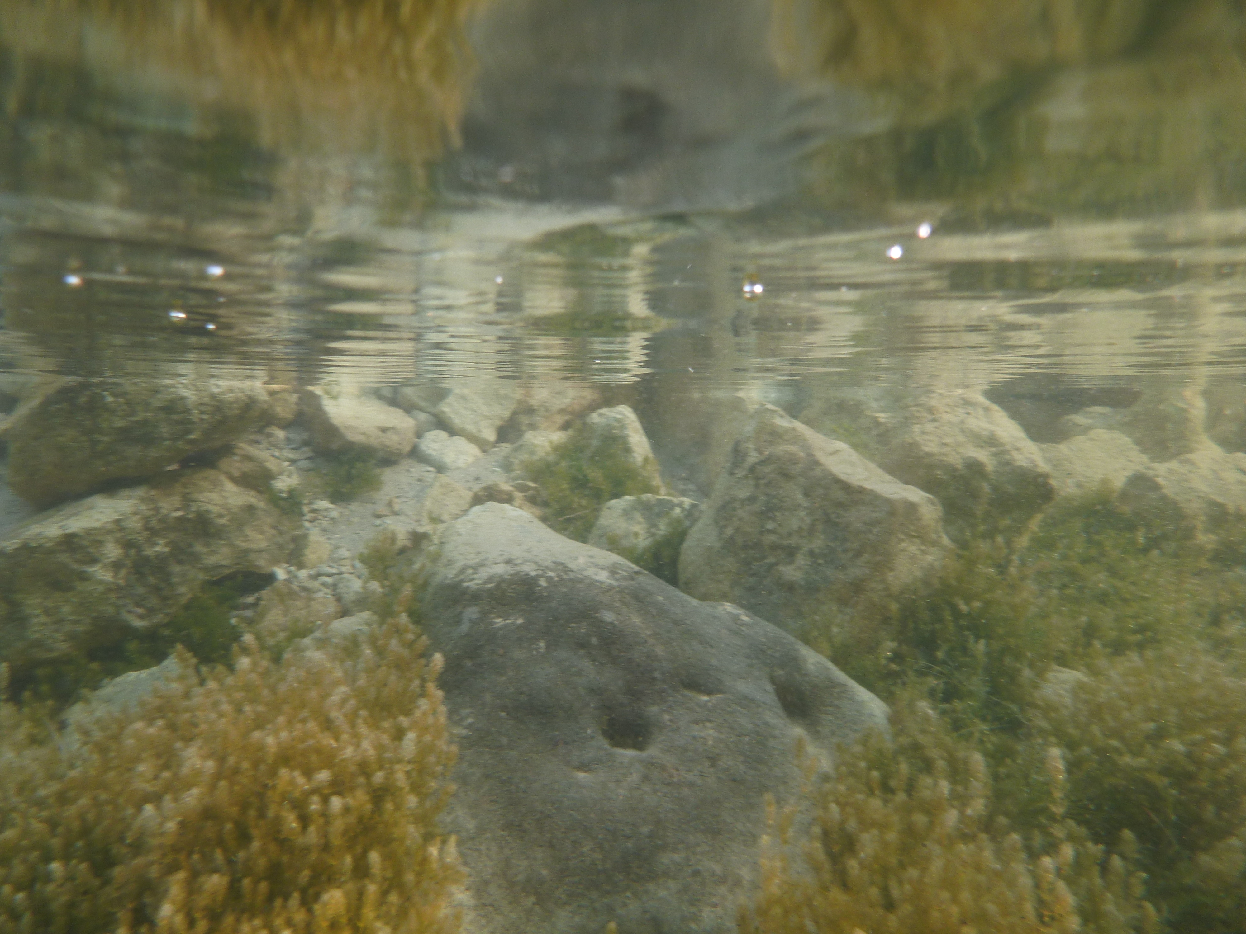 The rubble dredged out of the lake during the clean-up has created great habitat for algae, aquatic plants, invertebrates and fish.